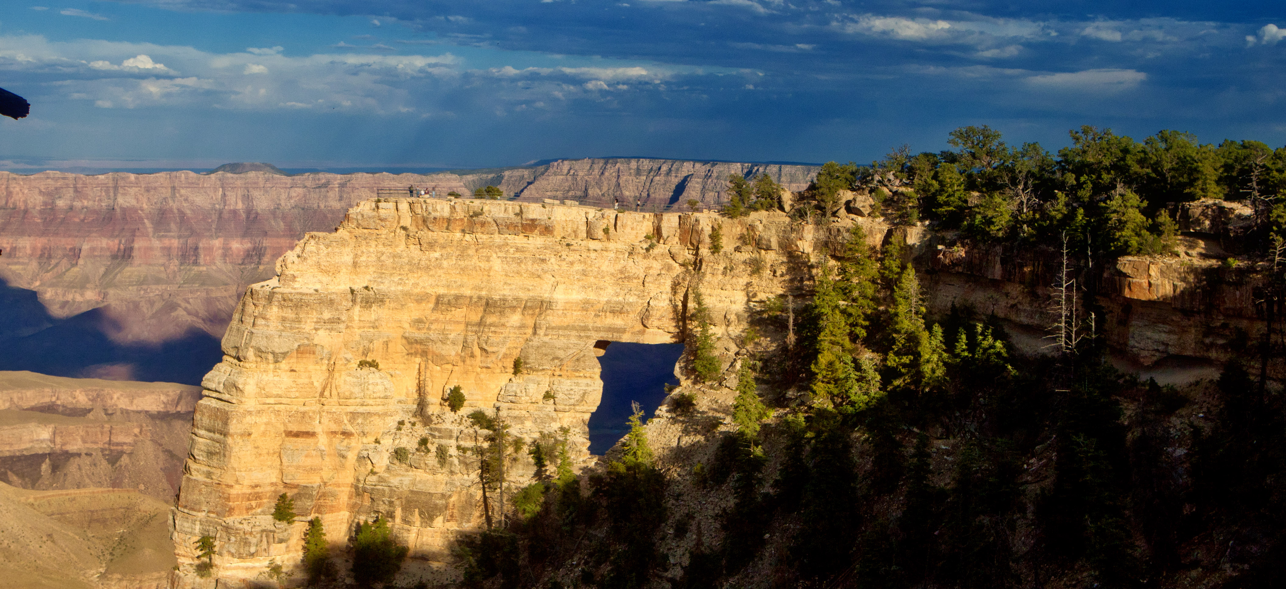 A shot of the Angel's Window taken from the Cape Royal Trail (Grand Canyon)